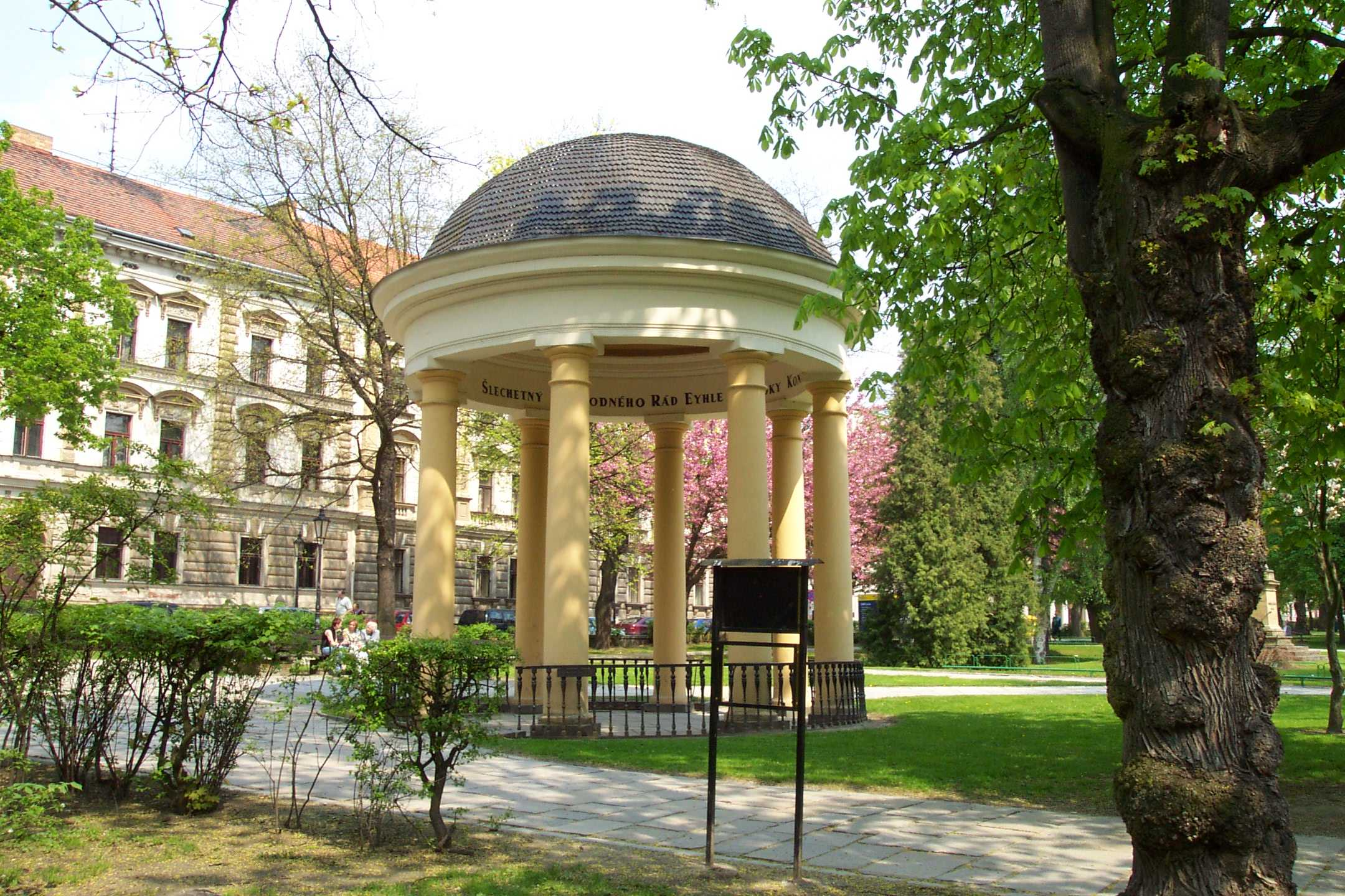 Palacký Park, Schrenk pavilion (1841). Písek, South Bohemian Region, the Czech Republic.